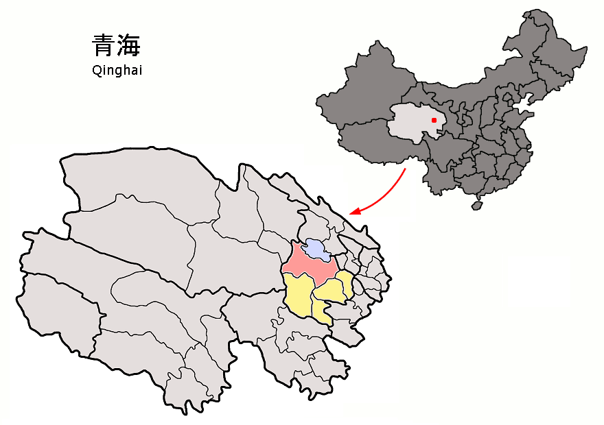 Location of Gonghe County (pink) and Hainan Prefecture (yellow) within Qinghai province of China Map drawn in september 2007 using various sources, mainly : Qinghai province administrative regions GIS data: 1:1M, County level, 1990 Qinghai Counties map from "Plateau Perspectives" (the limits of some county-level subdivisions may not be accurate)